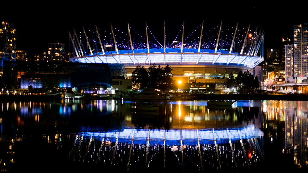 B.C. Place reflected in False Creek